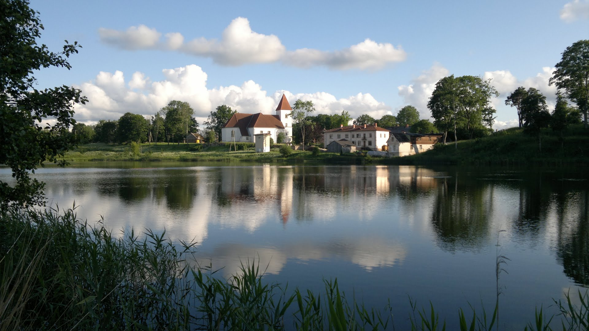 One of my most beautiful places in the world - Alsunga